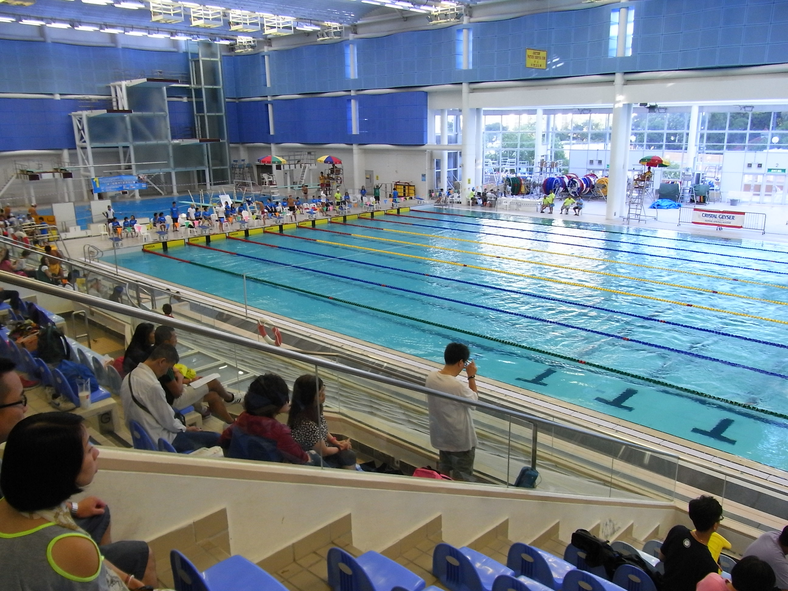 九龍公園游泳池, Kowloon Park Swimming Pool, Tsim Sha Tsui, Hong Kong